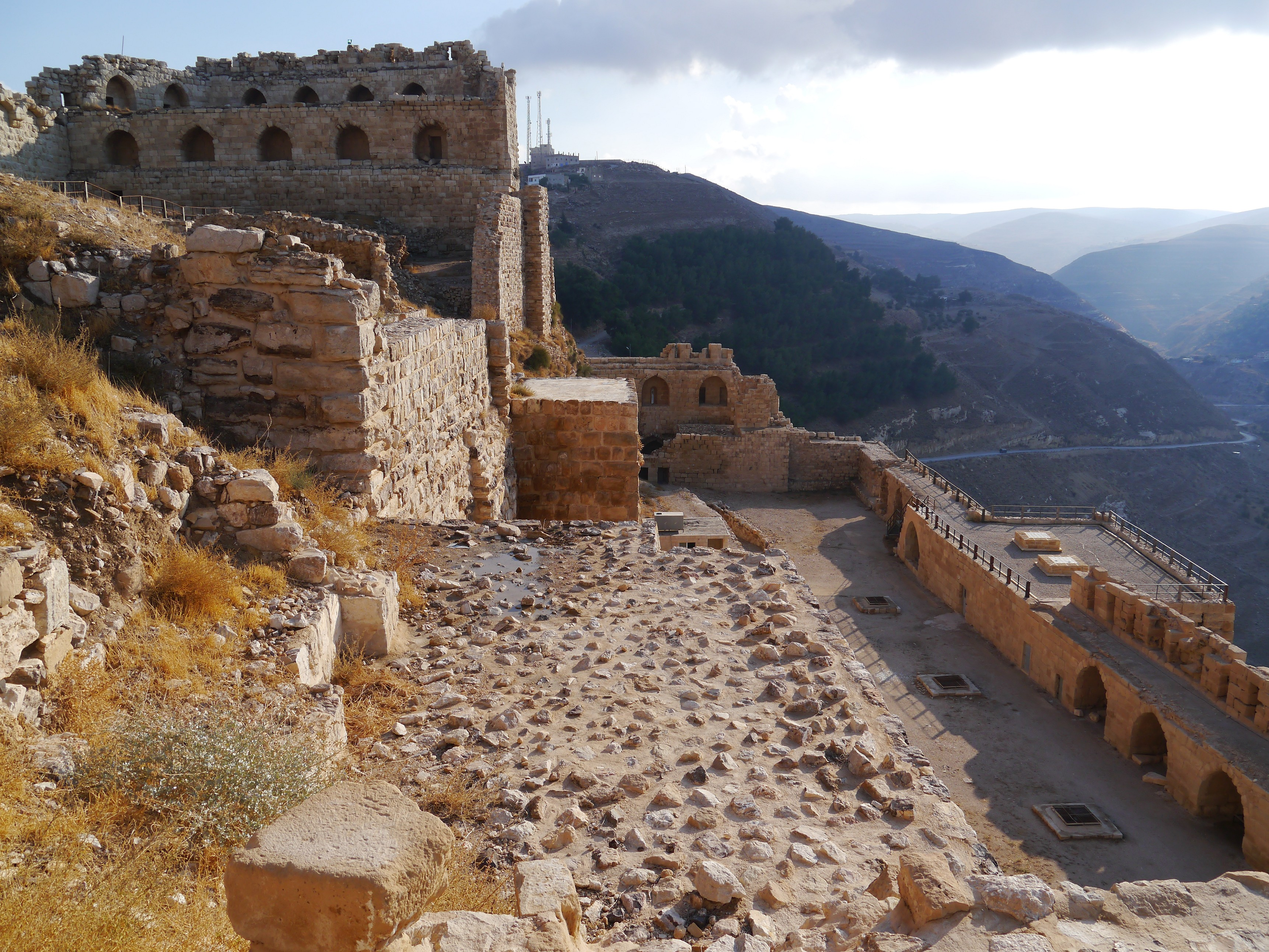 Kerak Crusader Castle, al-Karak, Western Jordan